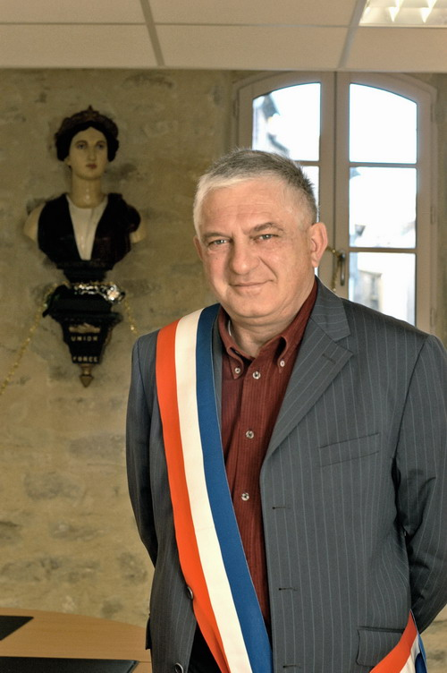 Gérard Schivardi, french politician and candidate for the 2007 presidential election